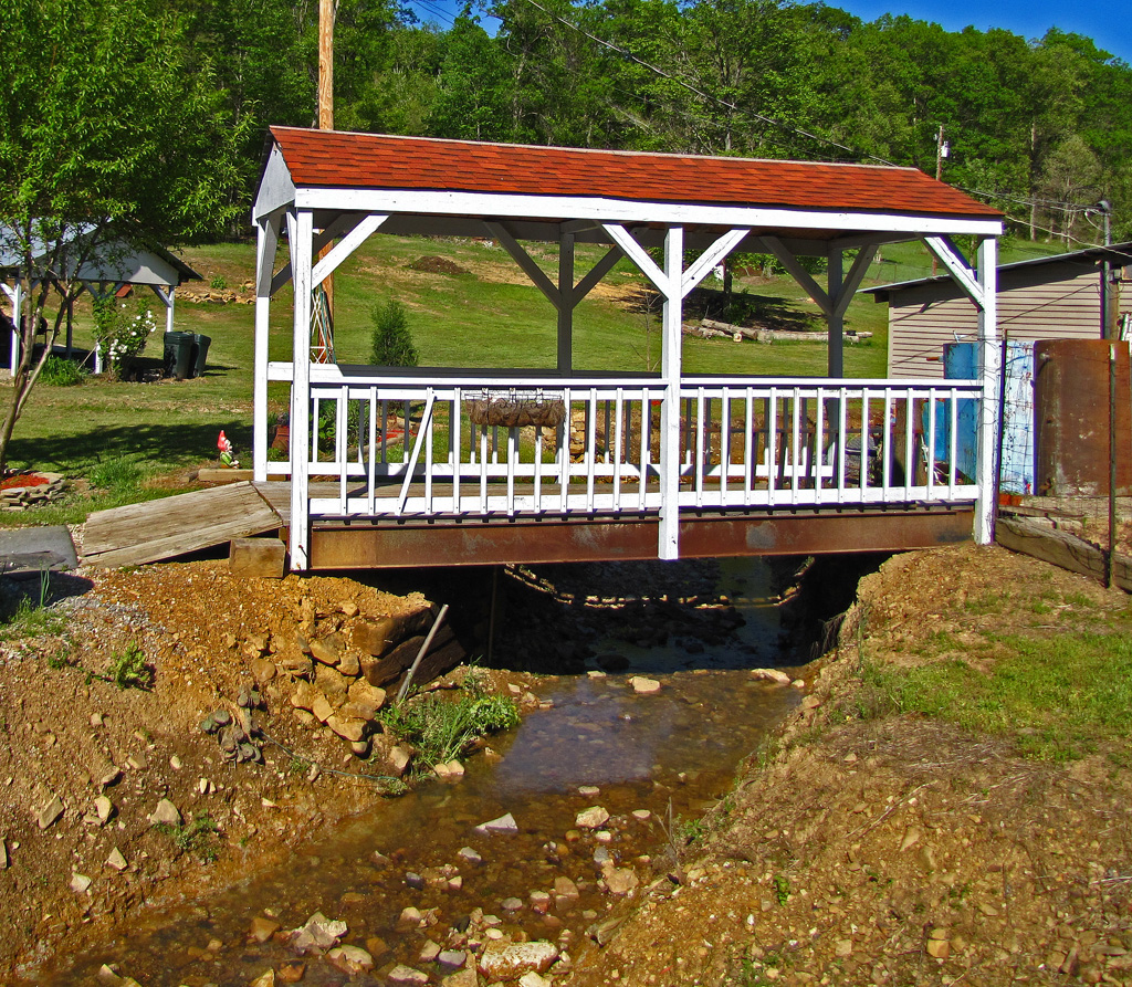 Road view of a small private covered bridge along Copeland Road in Pebble Township, Pike County, Ohio, United States.